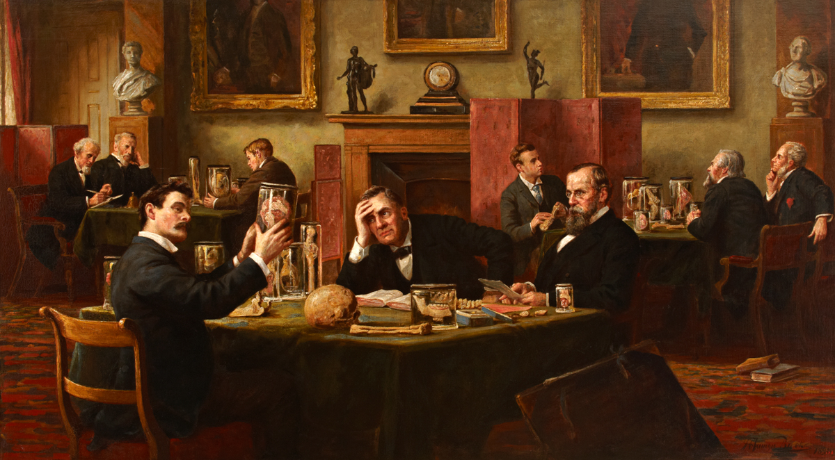 Shows Royal College of Surgeons' Court of Examiners